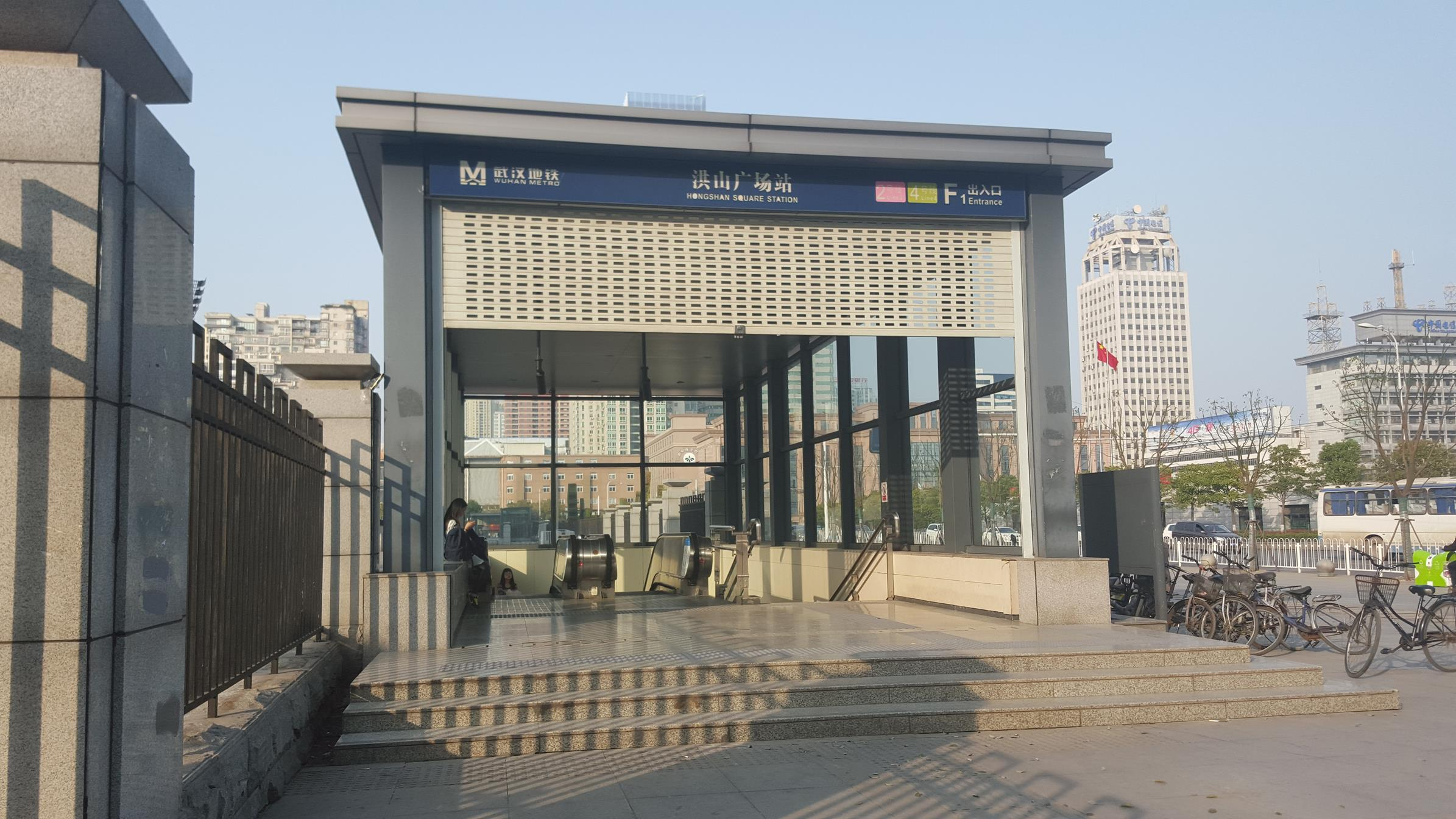 Entrance F1 of Hongshan Square Station, Wuhan Metro